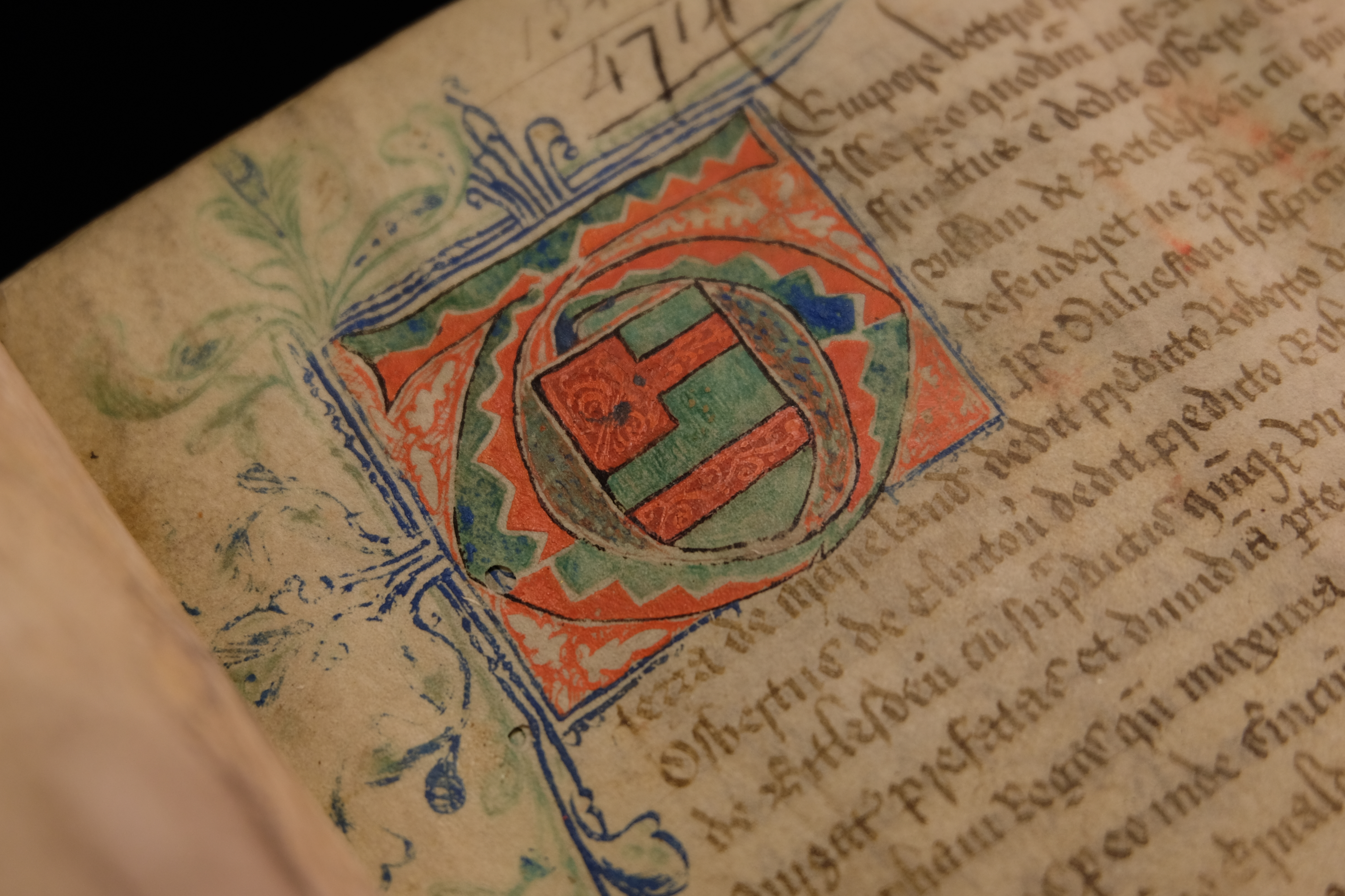 Opening initial of London, British Library, Harley MS 4714, fol. 1r